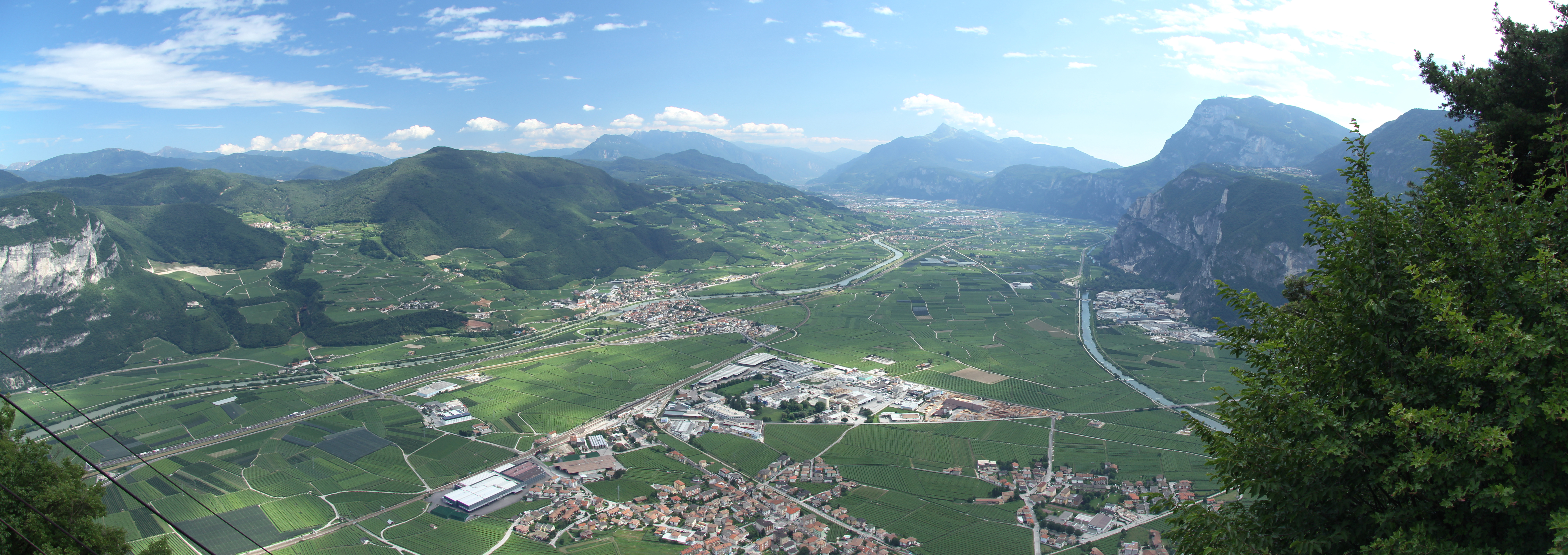 Mezzocorona (Italy): view of the so-called "Piana Rotaliana" (an alluvional plain between rivers Adige and Noce) from the upper station of the Mezzocorona cableway.